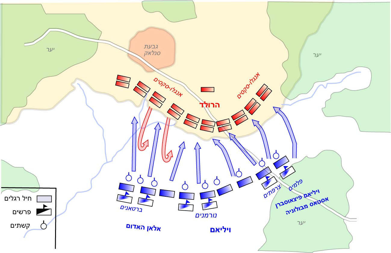 Position of troops at the start of the Battle of Hastings.